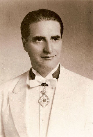 Scanned Family Photograph upon Decoration of Stefanos Natsinas